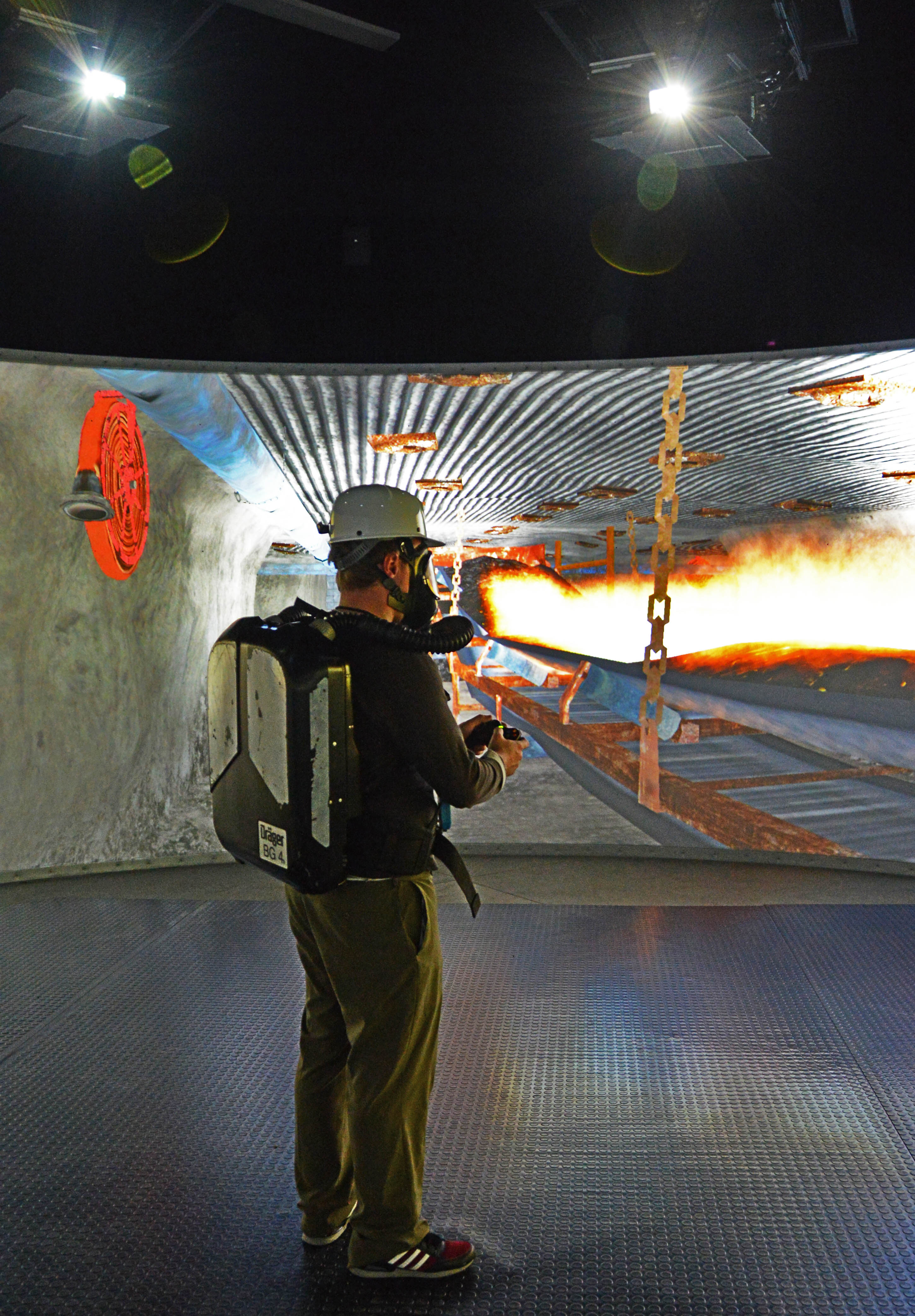 The NIOSH Mine Rescue and Escape Training lab provides an interactive mine rescue setting to conduct research and develop enhanced training methods by using a 3-D, 360-degree screening room. The goal of this research is to improve training methods.